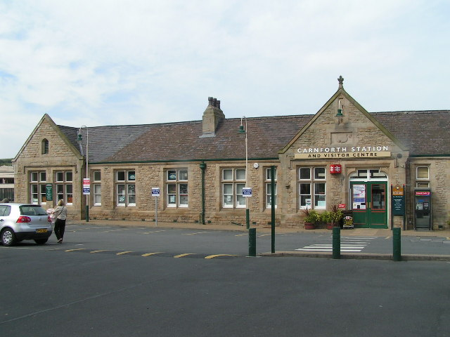 Carnforth Station. Famous as the main setting for the film Brief Encounter